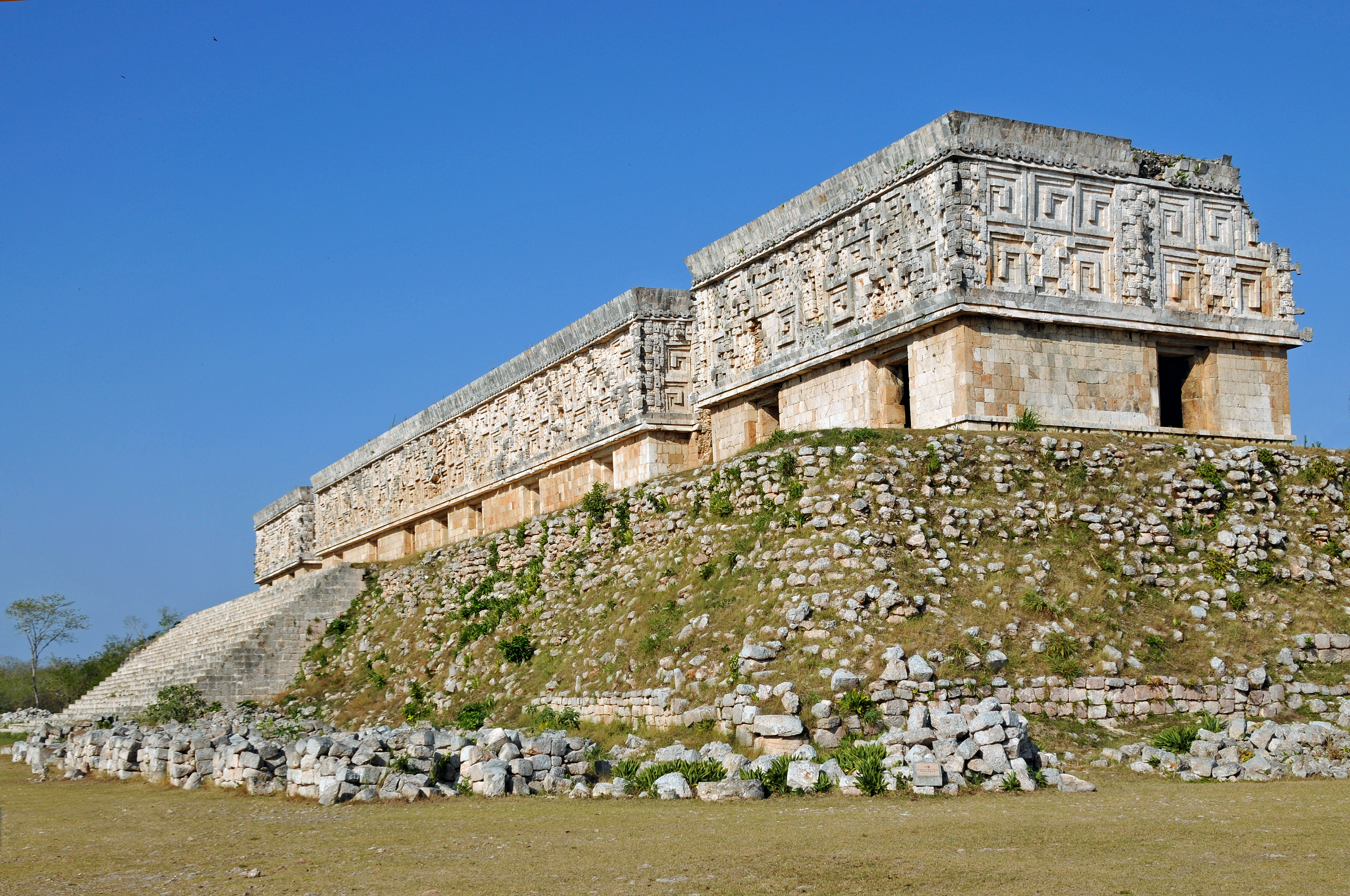 PLEASE, no multi invitations in your comments. DO NOT FEEL YOU HAVE TO COMMENT.Thanks. In its size and intricate stonework, the Governor's Palace rivals the Magician's Pyramid as the masterpiece of Uxmal. It's an imposing three-level edifice with a 97 m. long mosaic facade, built in the 9th and 10th centuries. There are 103 stone masks of Chac across the facade. They end at the corners, where there are columns of masks. In the open plaza in front of the Palace is the Jaguar Throne, carved like a two-headed jaguar, which the Mayas associated with chiefs and kings. The Governor's Palace may have been the administrative center of the Xiú principality, which included the region around Uxmal. The Governor's Palace probably had astrological significance as well. For years, scholars pondered why this building was constructed slightly turned from adjacent buildings. Recently scholars of archaeoastronomy (a relatively new science that studies the placement of archaeological sites in relation to the stars) discovered that the central doorway, which is larger than the others, is in perfect alignment with Venus.